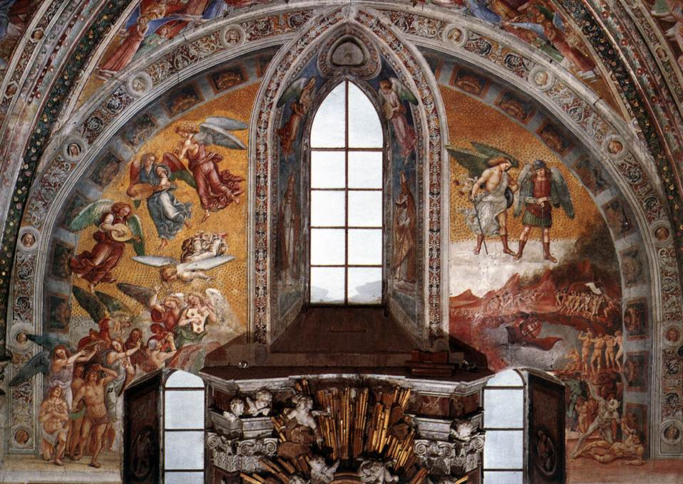 SIGNORELLI, Luca Last Judgement Fresco Chapel of San Brizio, Duomo, Orvieto